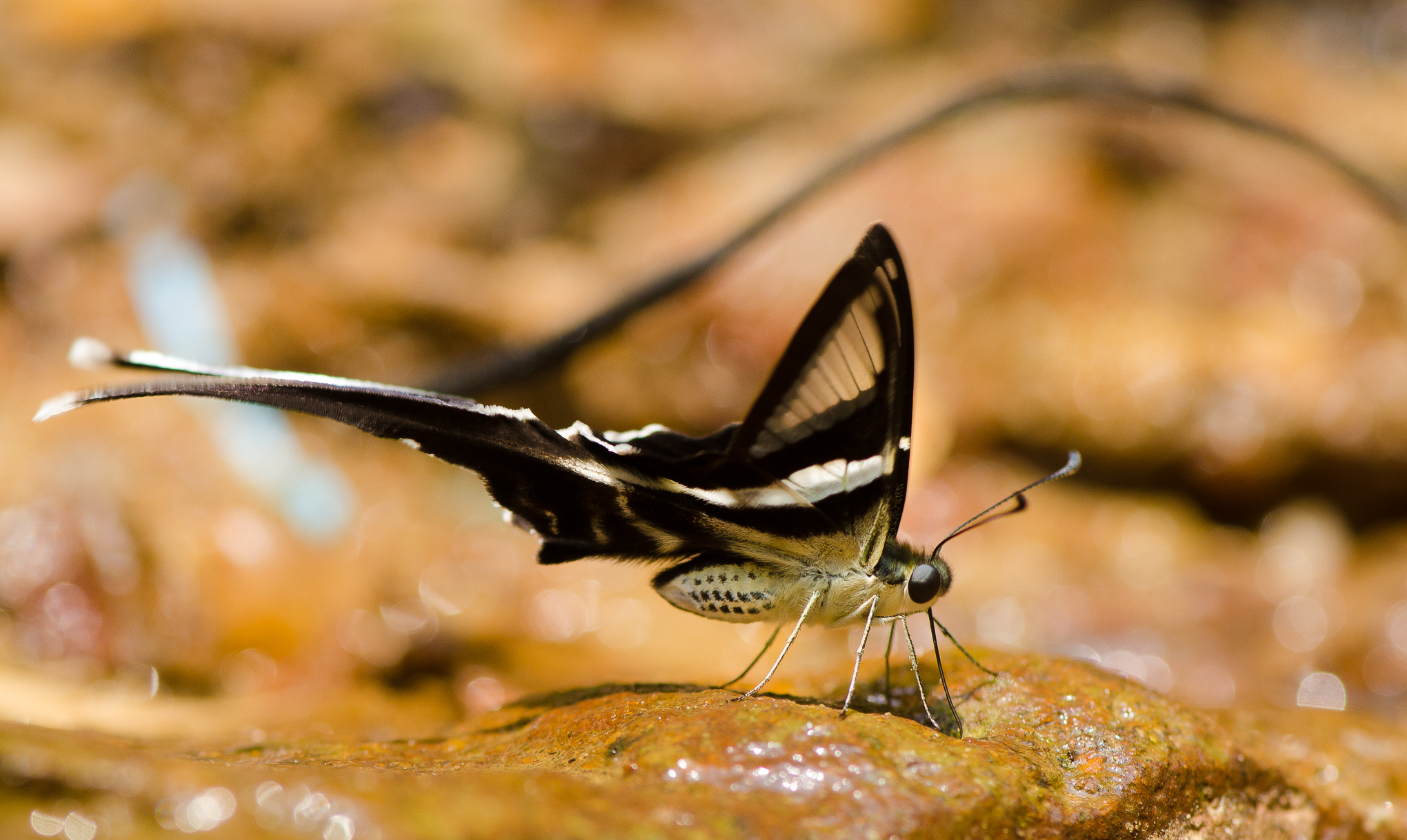 Lamproptera curius known as White Dragontail recorded from Garohills, Meghalaya